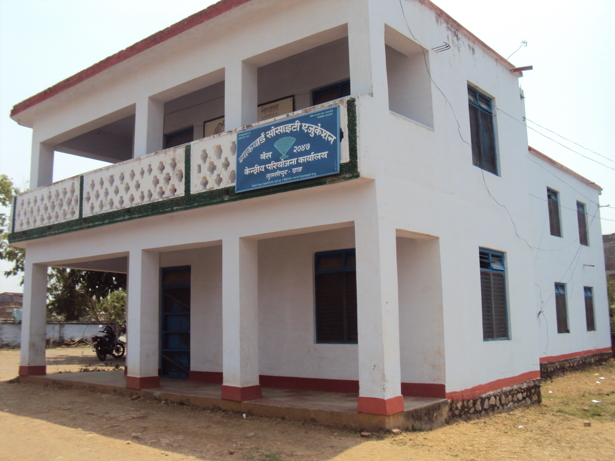 A BASE office located in Western Nepal.